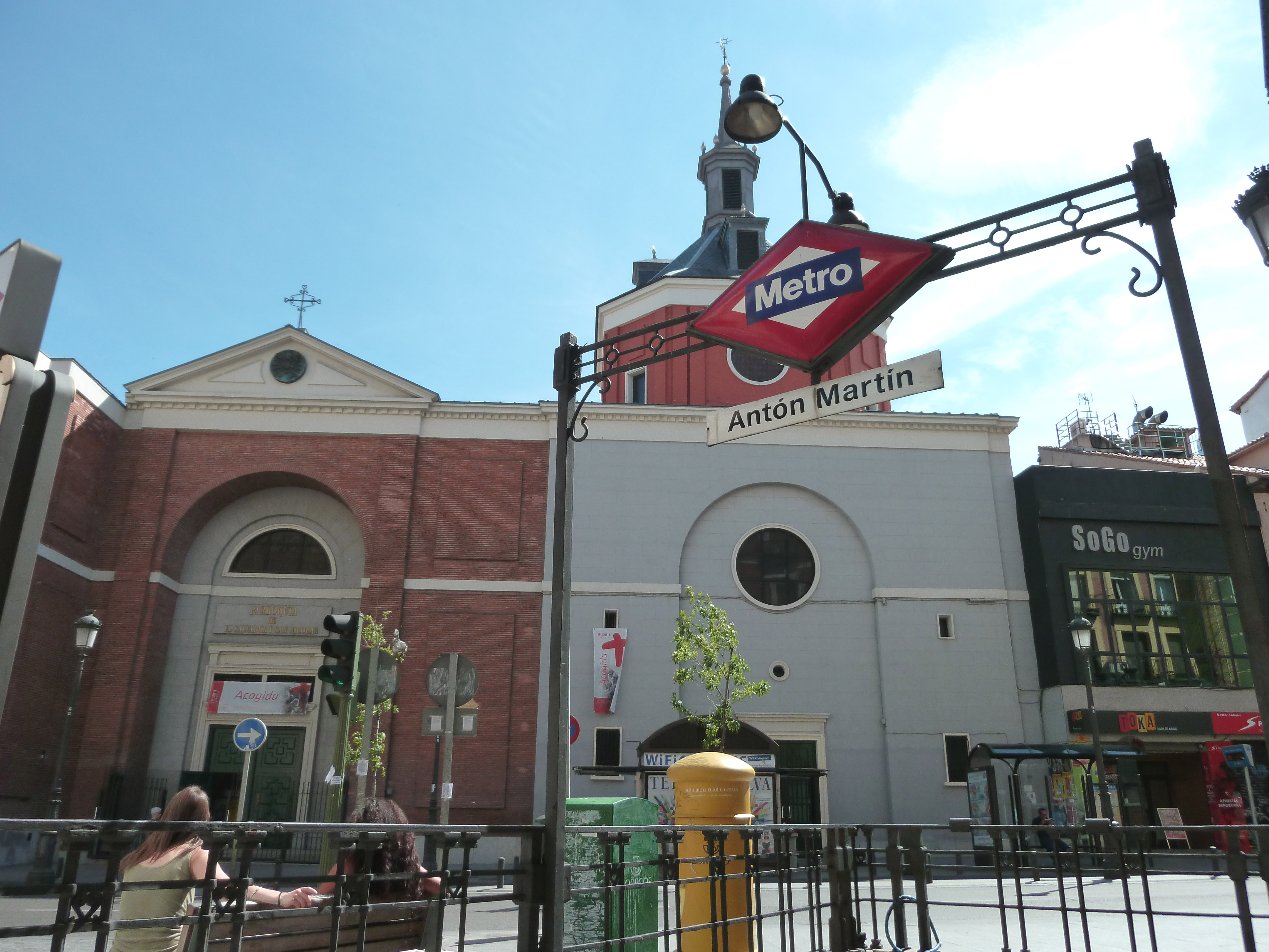 Entrance of Antón Martín metro station in Madrid (Spain).